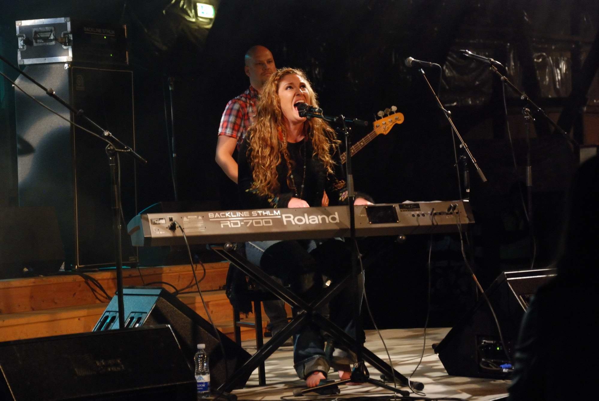 Sarah Kelly performing live at Frizon 2009, Sweden